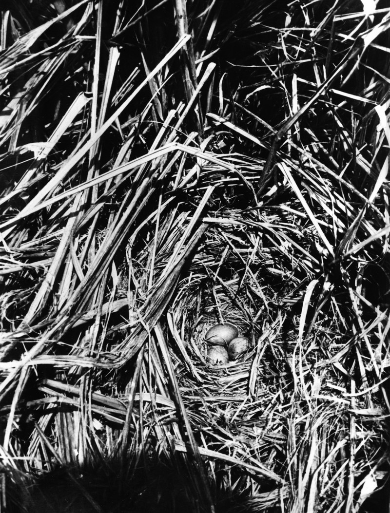 Laysan Crake (Porzana palmeri) Eggs. picture from 'Birds of Laysan and the Leeward Islands, Hawaiian Group' by Walter K. Fisher from the year 1906 Photo: by courtesy of the Freshwater and Marine Image Bank